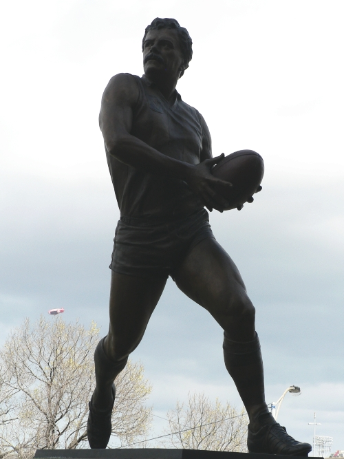 Statue of Leigh Matthews in the Parade of Champions at the Melbourne Cricket Ground.